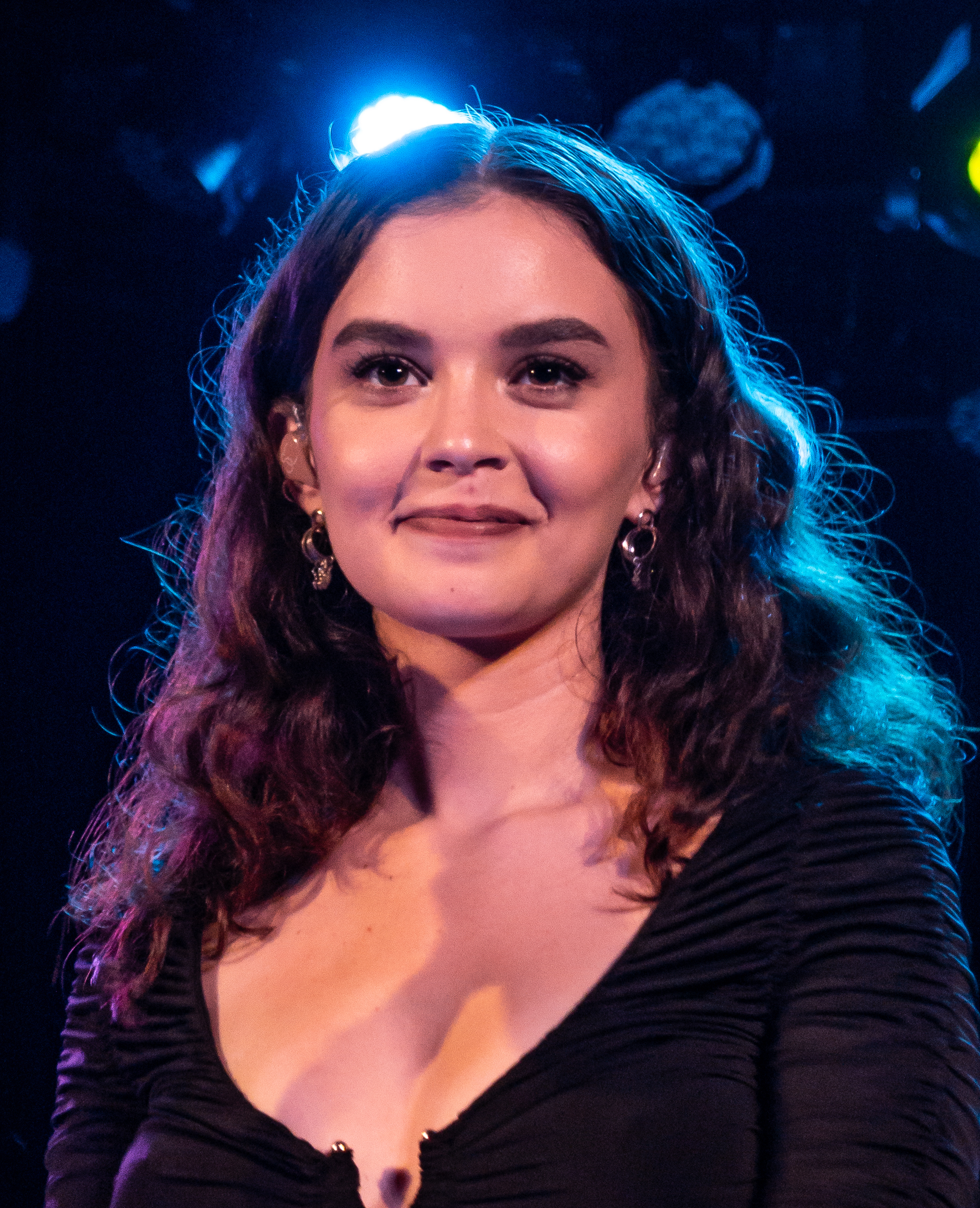 Sabrina Claudio performing live at The Roxy theatre in West Hollywood, Los Angeles, California, on Monday, August 27, 2018. This was a charity show and tour warmup concert.